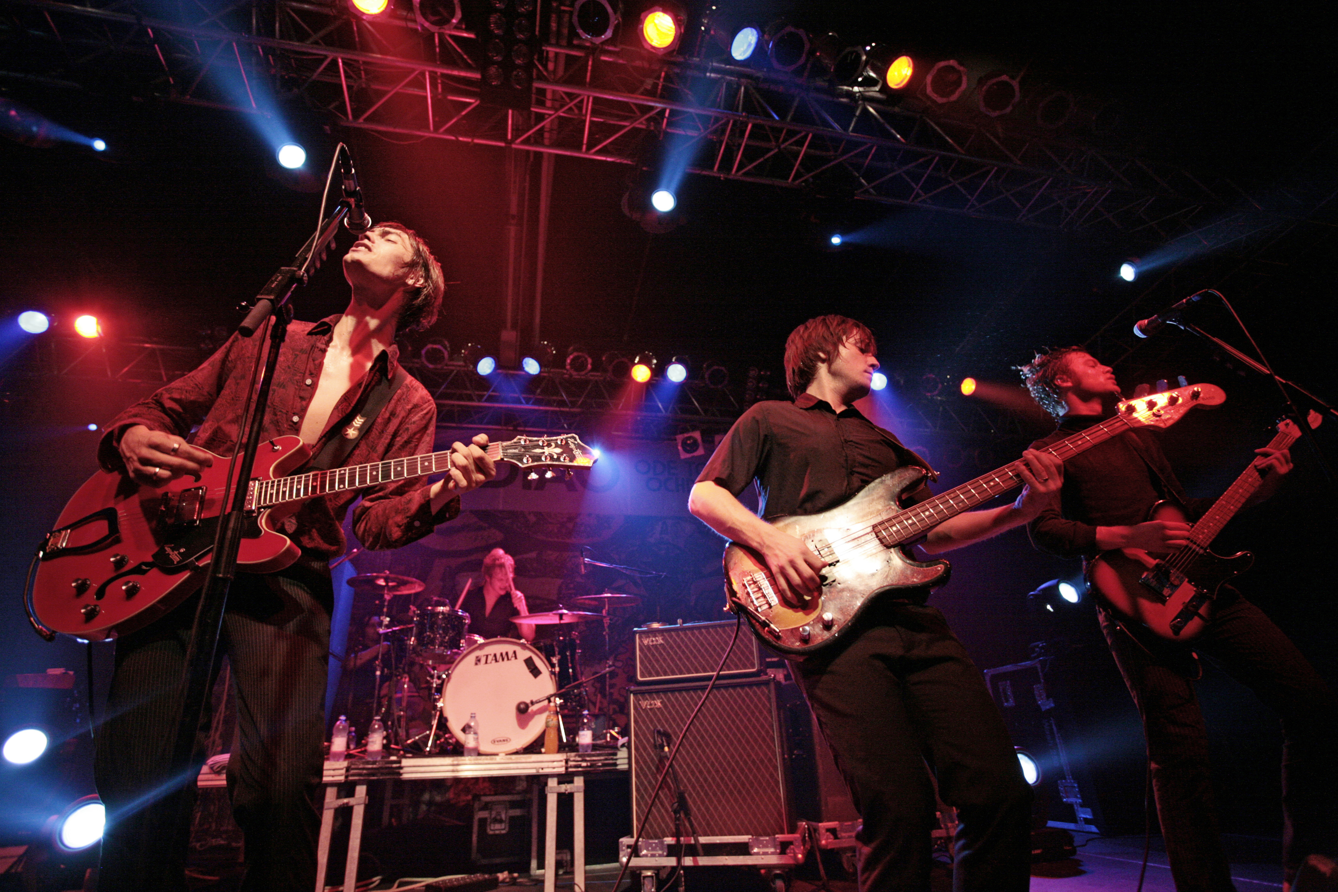 Björn Dixgård and Gustaf Norén from Mando Diao